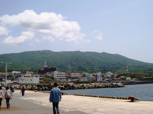 Izu Oshima, a view from the Motomachi Port